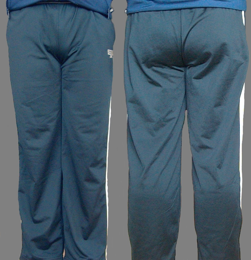 Sports pants on a man. Own image.